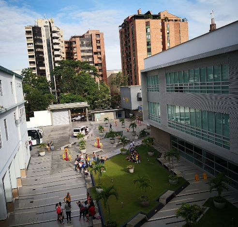 Current facilities at Sotomayor campus.